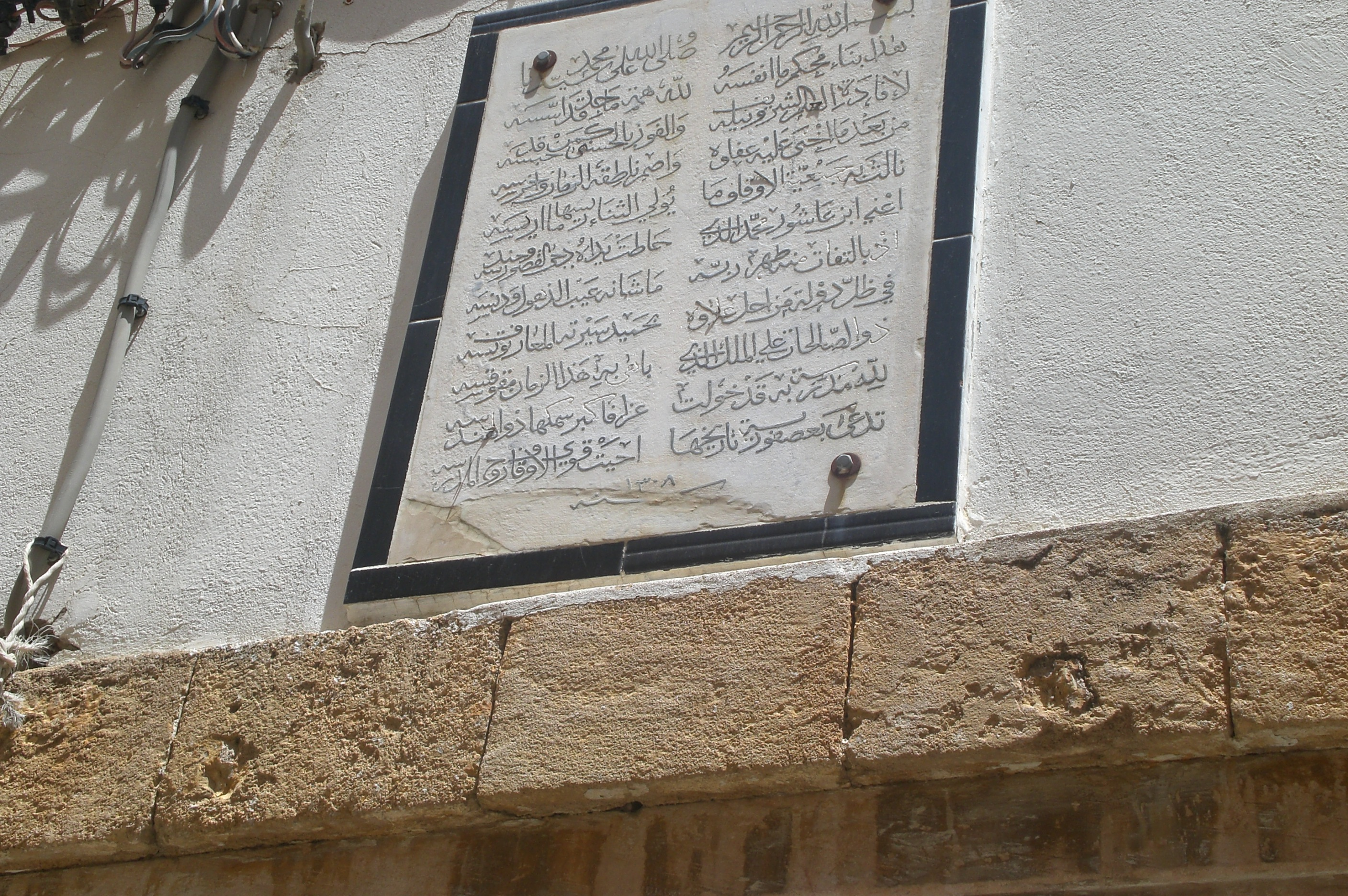 The inscription of Medrsa Asfouria